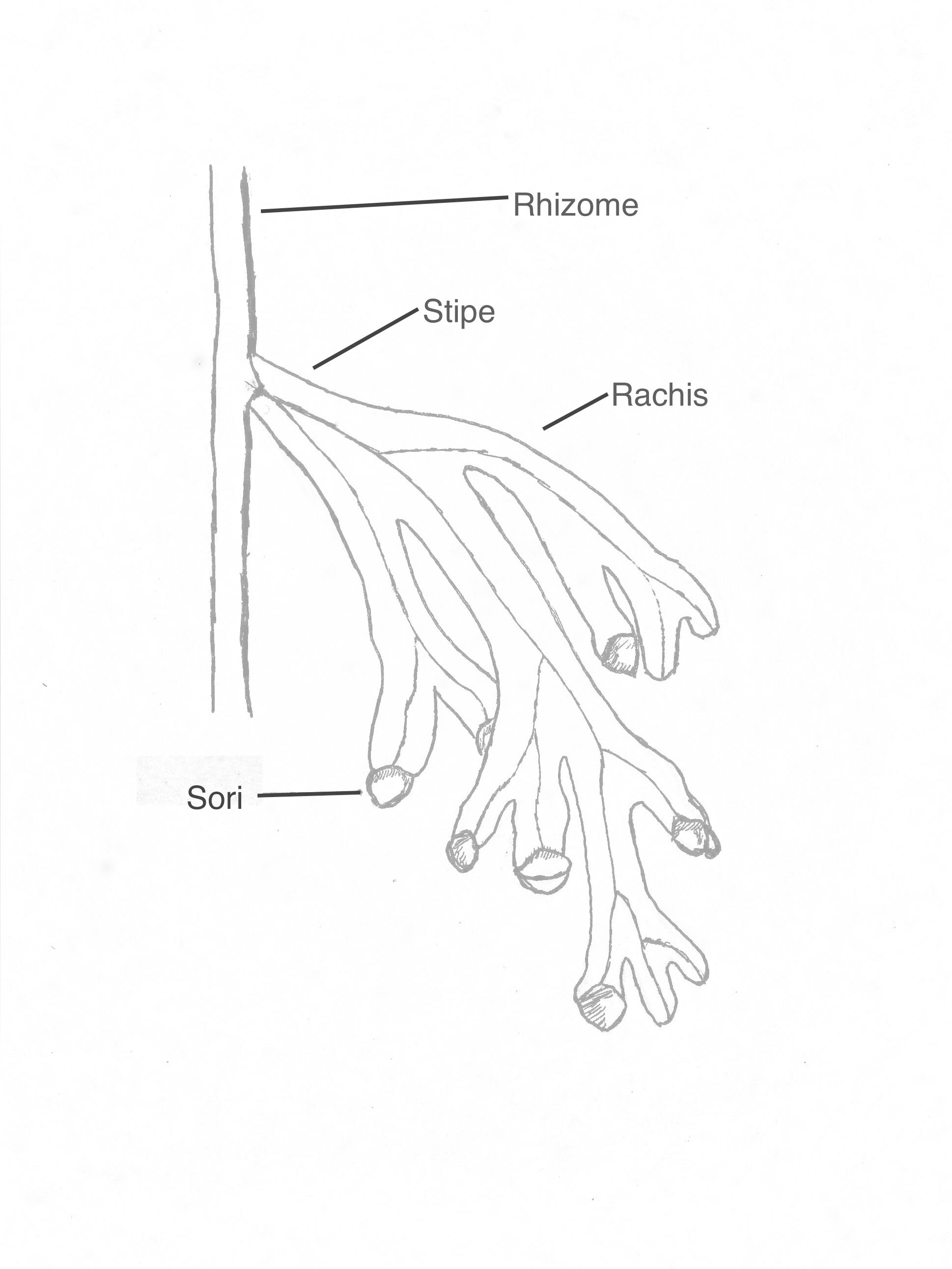 Annotated H.australe frond